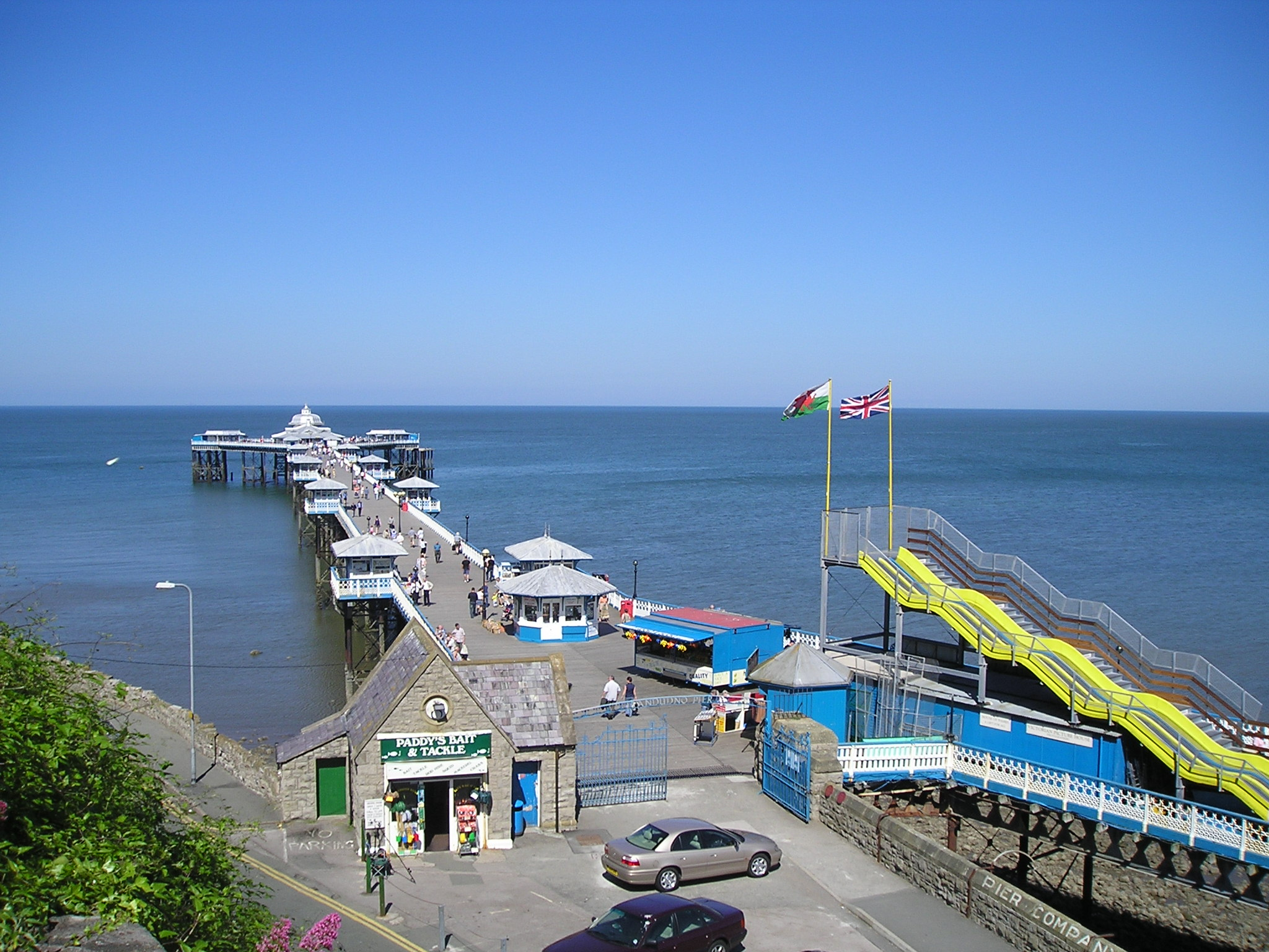 Llandudno Pier taken by me, Noel Walley on 14/06/2004